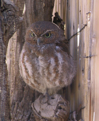 An Elf Owl (Micrathene whitneyi)